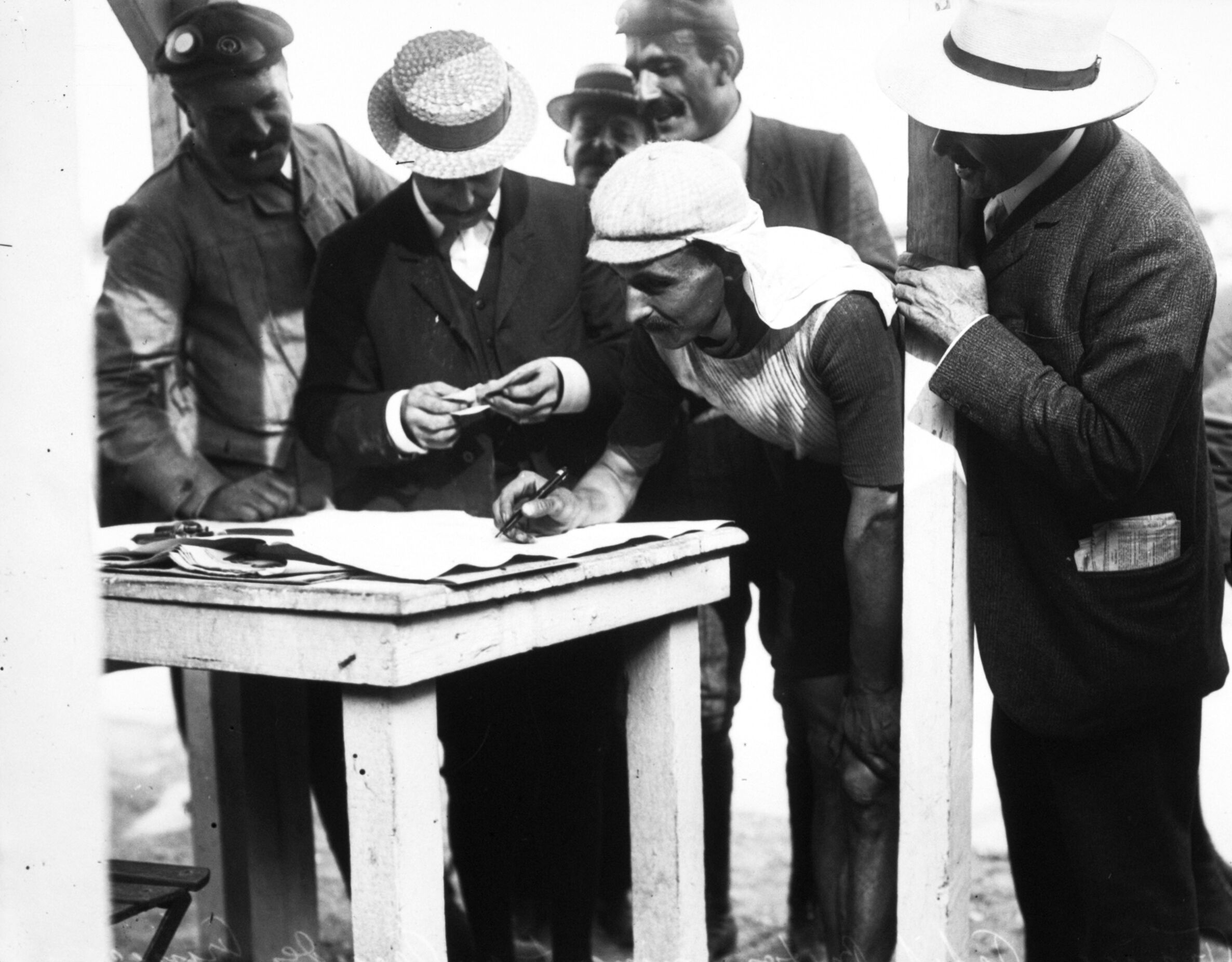 Petit-Breton signature at the arrival of the Tour de France 1907